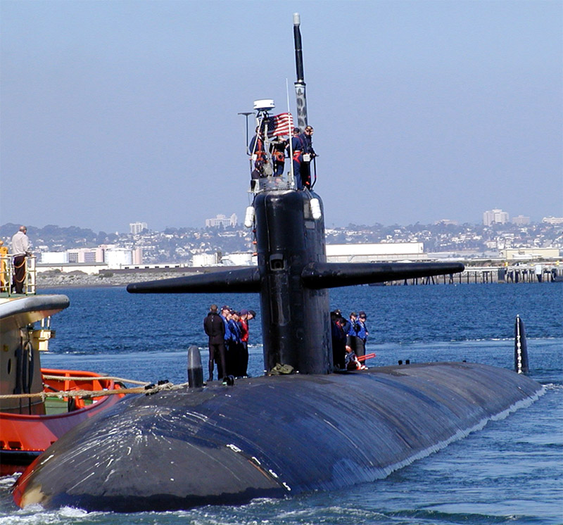 San Diego, California (en:14 March, en:2003) -- USS Bremerton (SSN-698) departs its homeport of San Diego for a Western Pacific Deployment. Commanded by Cmdr. Jerry Logan, the Los Angeles-class attack submarine has a crew of more than 130 men and will be conducting operations throughout the Western Pacific. The submarine is a multi-mission stealth platform, covertly projecting power ashore by inserting Special Operations Forces, conducting surveillance, and collecting intelligence while providing a flexible forward presence in support of U.S. interests.